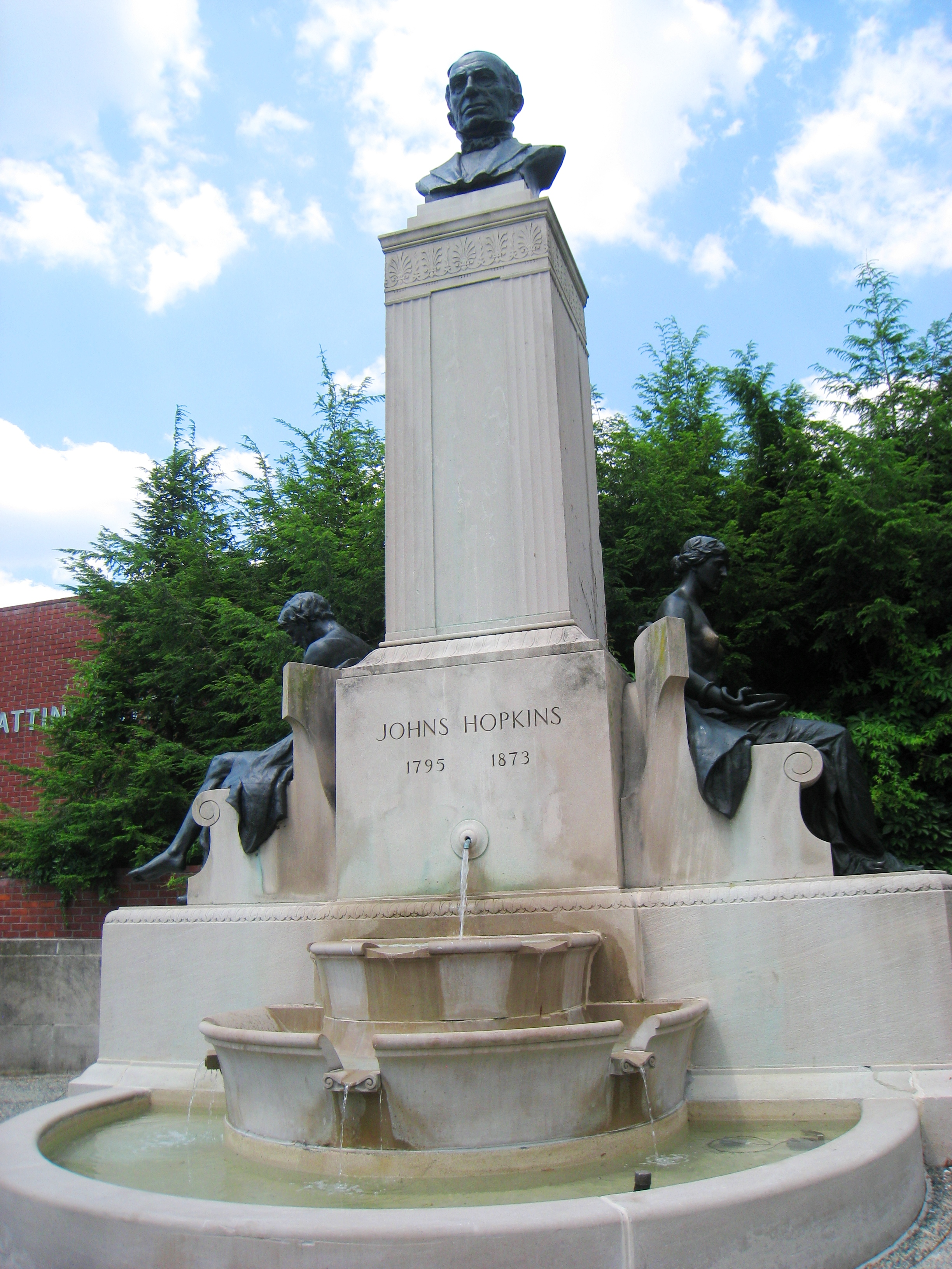 Johns Hopkins Monument, Johns Hopkins University, Baltimore, Maryland, USA. Sculpted by Hans Schuler, 1935.